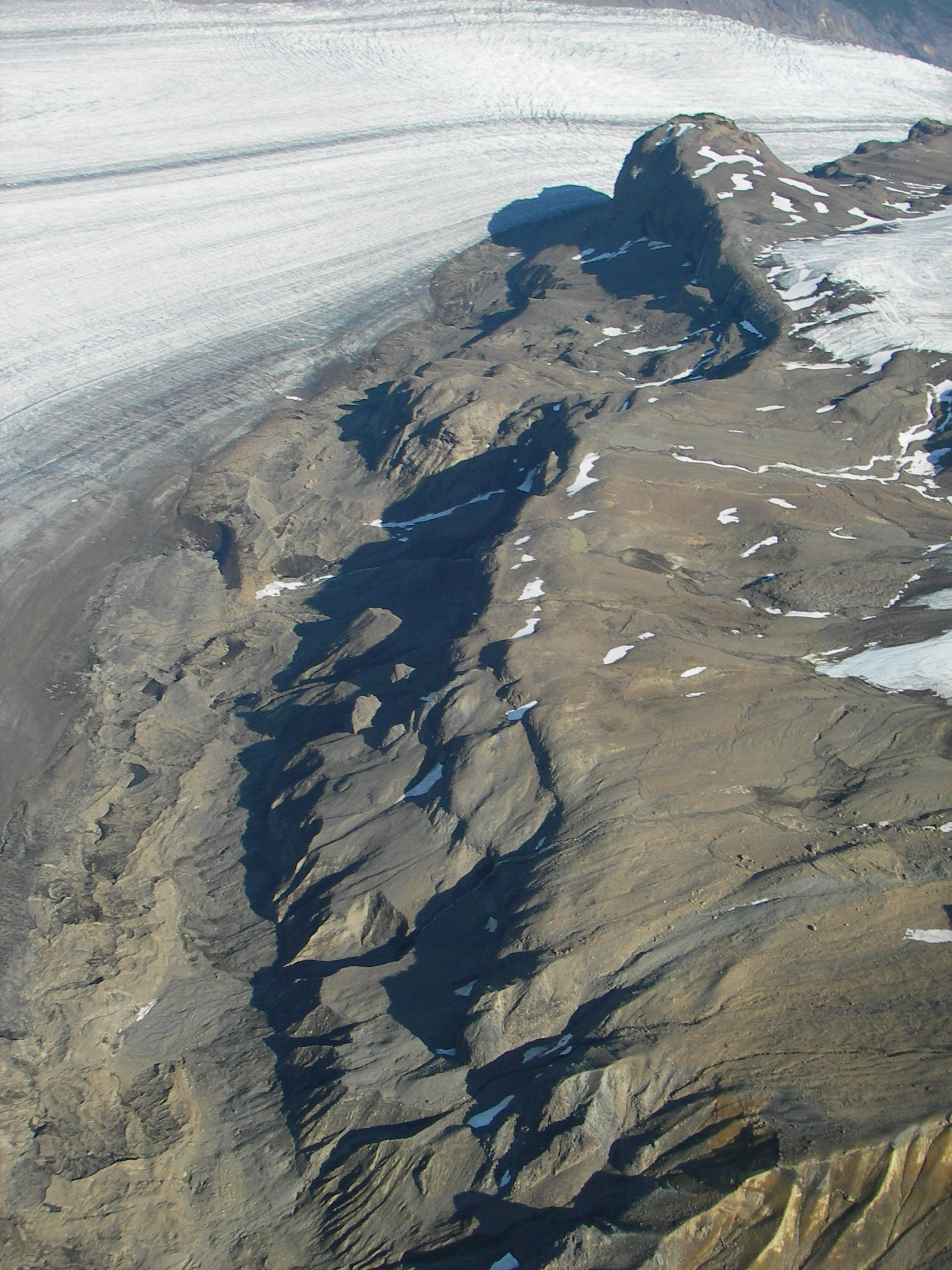 The north side of Hoodoo Mountain features lava flows that were likely extruded under the glacier, giving them this interesting formation.